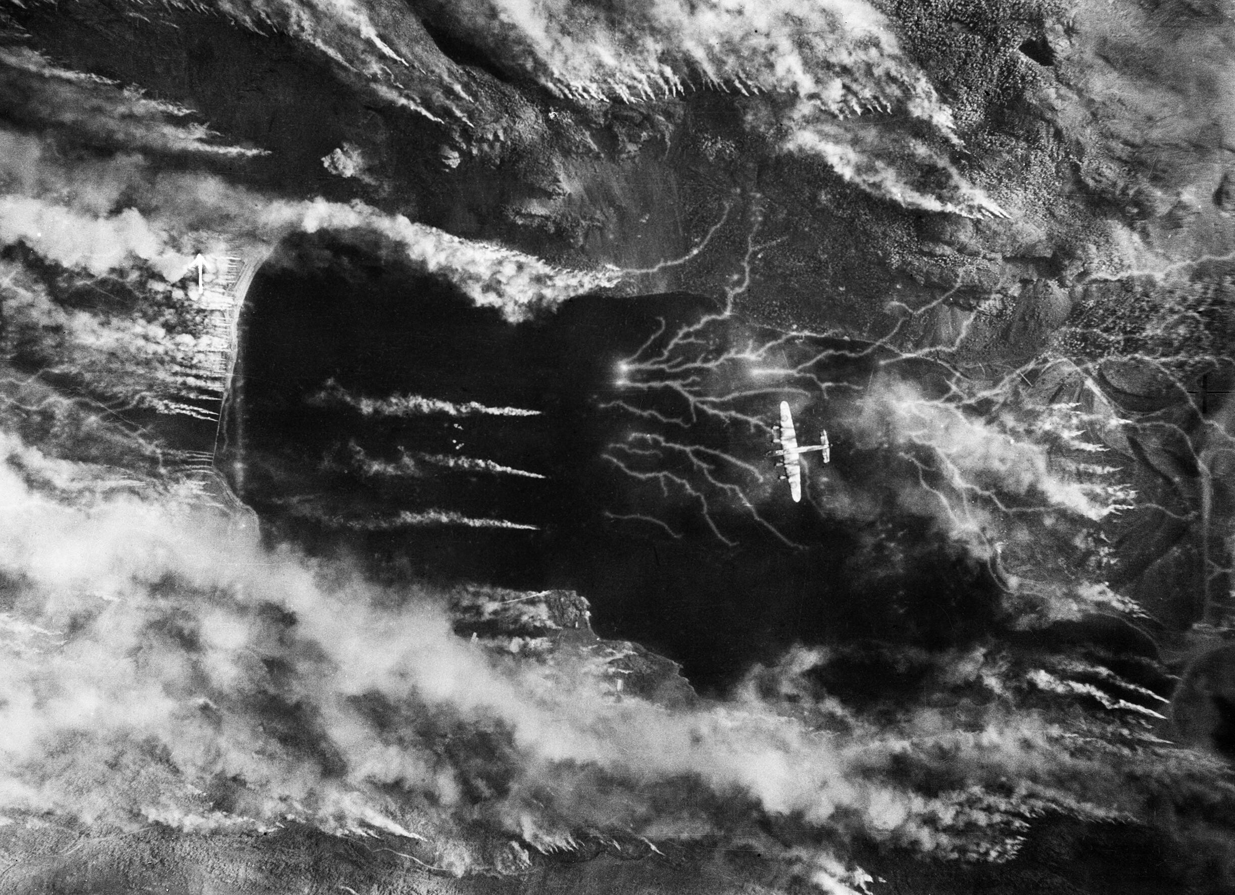 A British Lancaster bomber over Kaafjord, Norway during the Operation Paravane raid on the German Battleship Tirpitz. Imperial War Museum Catalogue number C 4873